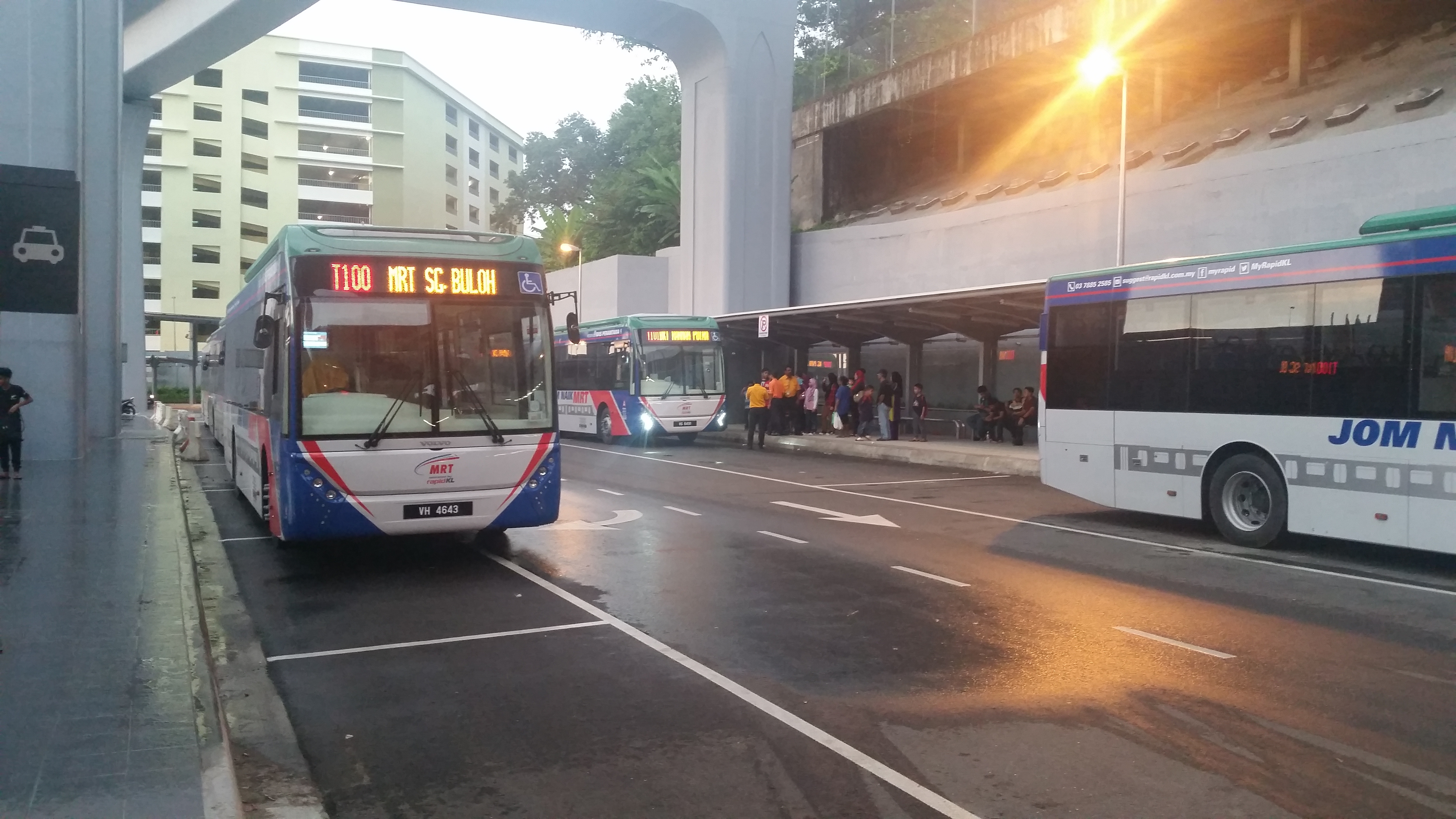 MRT feeder buses being parked at Sungai Buloh railway station.